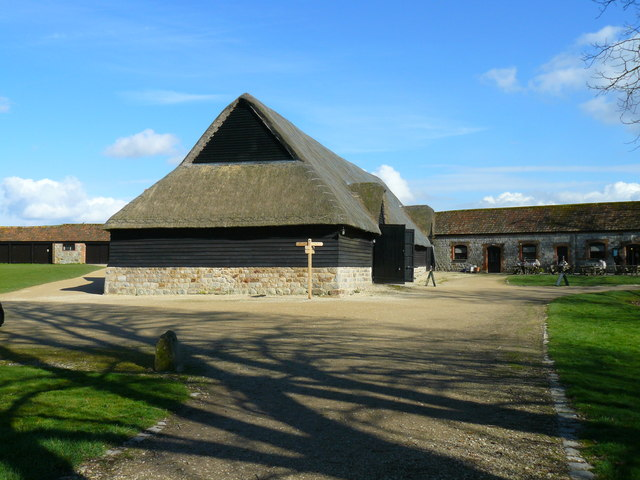 Avebury - Tithe Barn This barn now houses an interactive display covering the history of Avebury from ancient times to the present day.